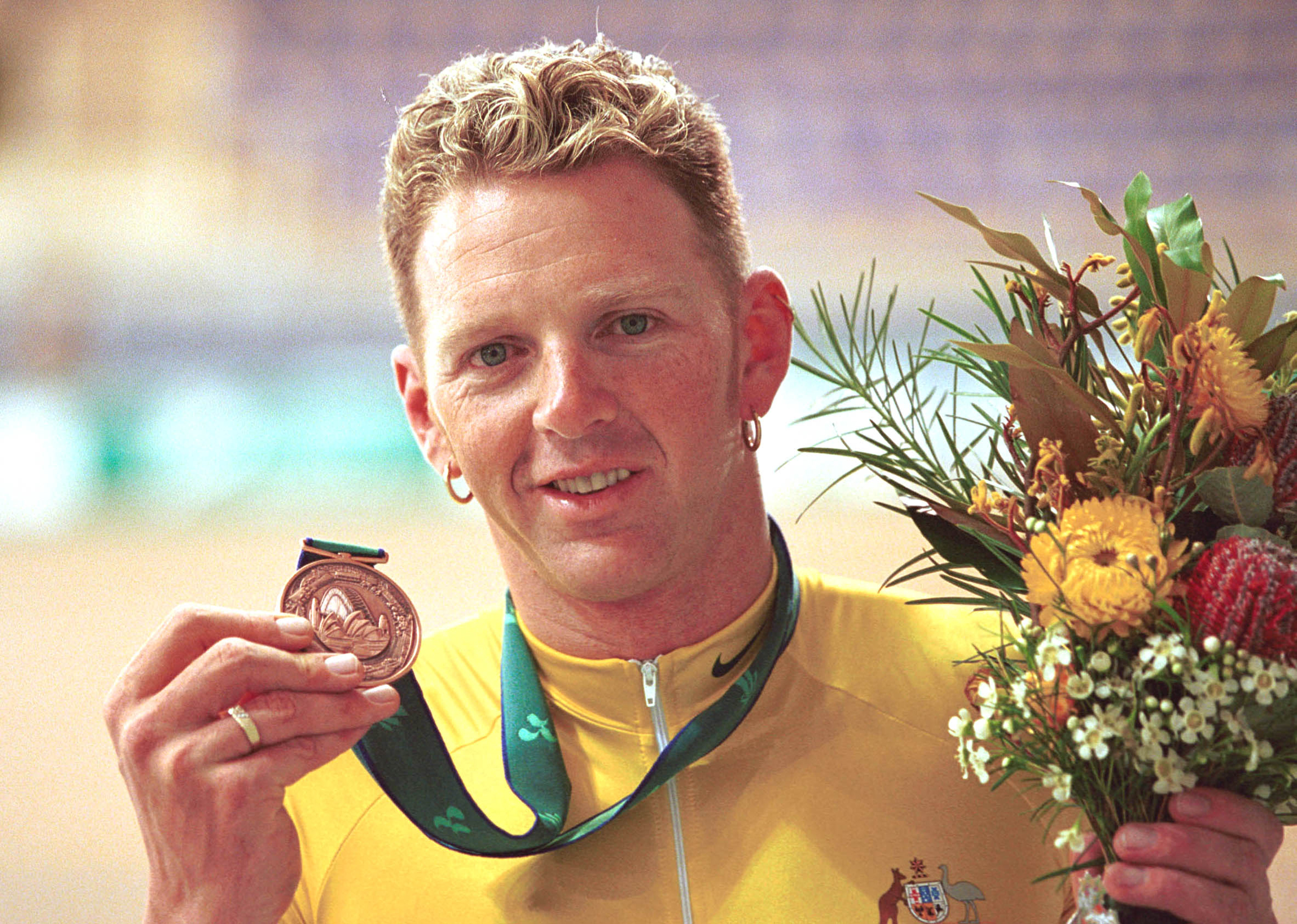 Australian track cyclist Paul Lake shows his bronze medal and native Australian floral bouquet won at the LC2 1km Time Trial event, 2000 Sydney Paralympic Games